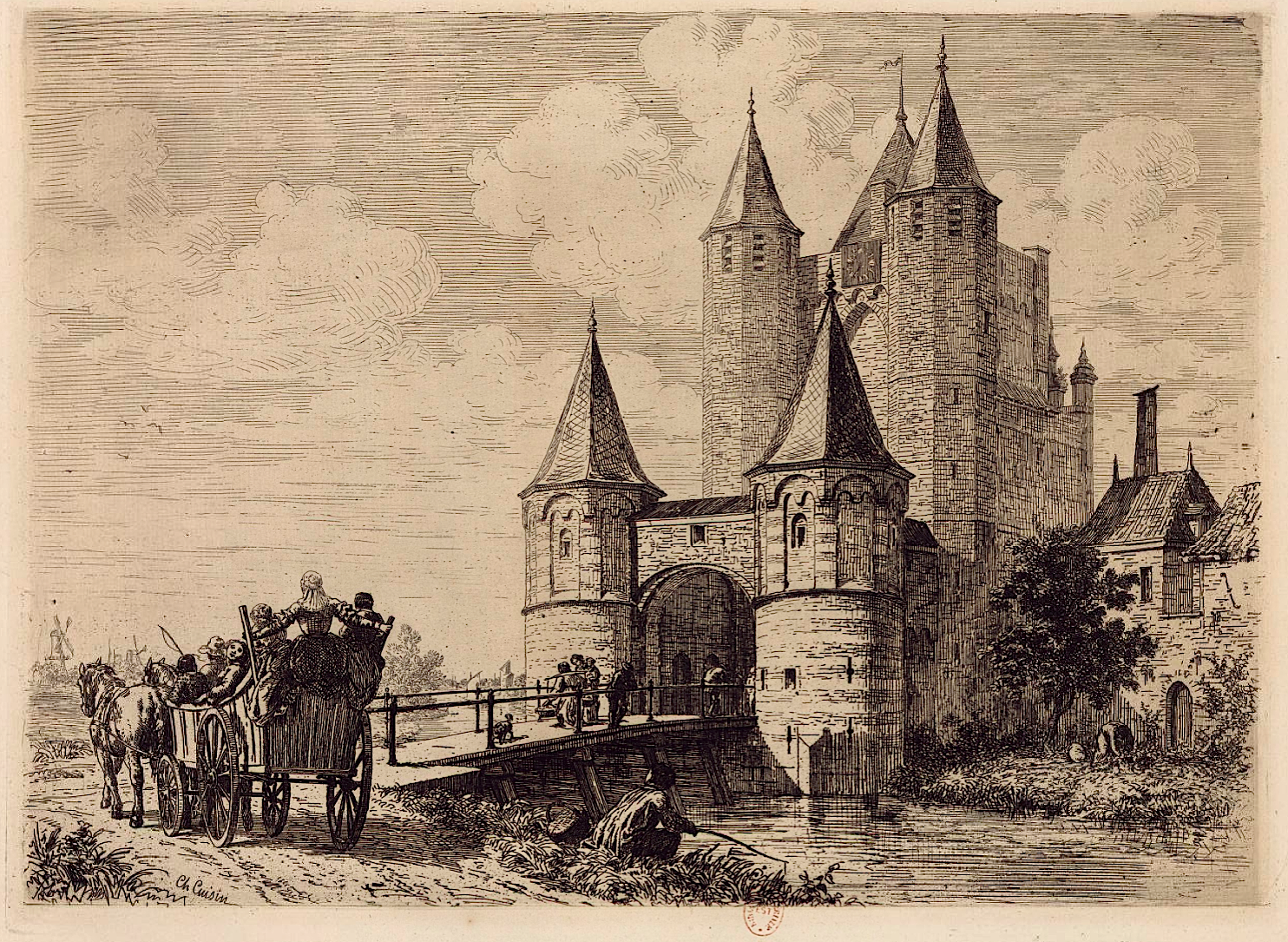 Porte d'Amsterdam à Harlem, etching by Charles Cuisin, published in La Société des aquafortistes [issue 2], Paris.